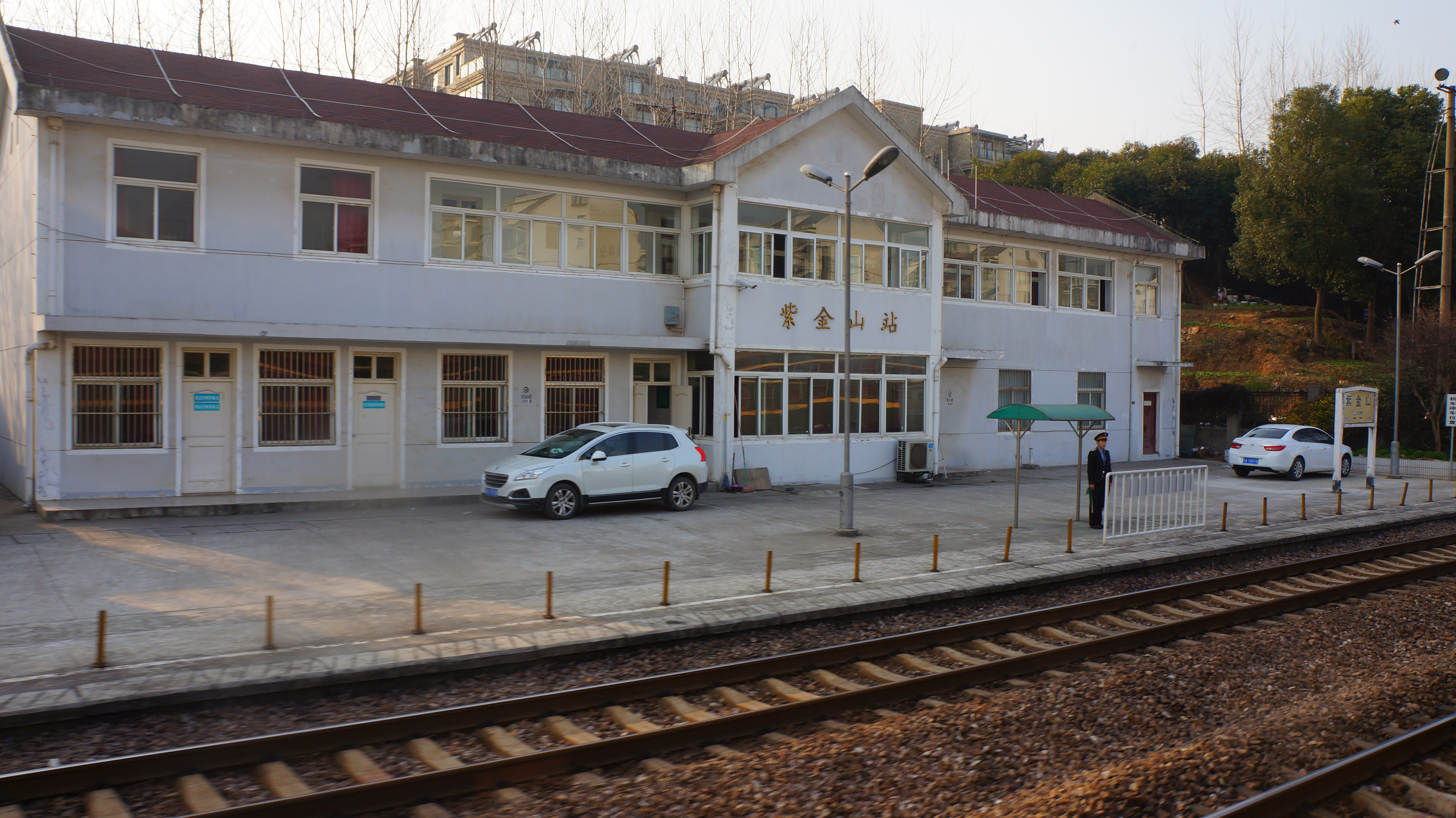 201601 Conductor of Zijinshan Railway Station